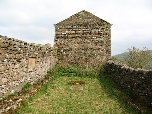 Ruined chapel near Smarber, Swaledale, North Yorkshire. A tablet on the wall states that this was the first independent church in Swaledale and was founded by Philip Lord Wharton in 1690. The site is on a steep hillside well above the B6270 road, and approached by narrow paths.